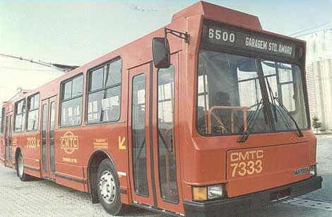 A Mafersa M210 Turbo trolleybus that belonged to CMTC, transportation company of Sao Paulo, Brazil.